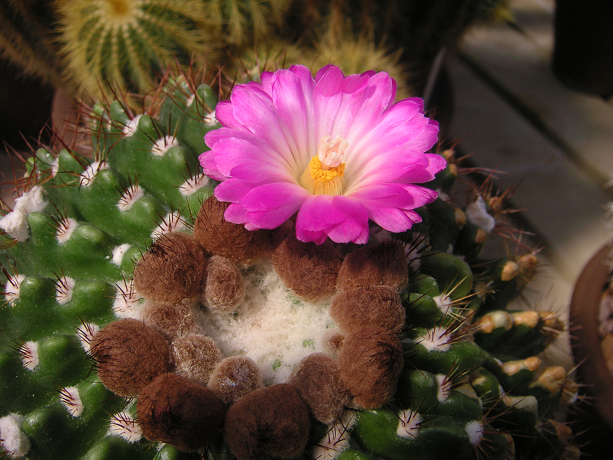 Parodia herteri formerly Notocactus herteri